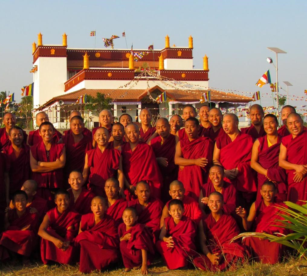 Some of the Rato monks outside of the temple January 2011.